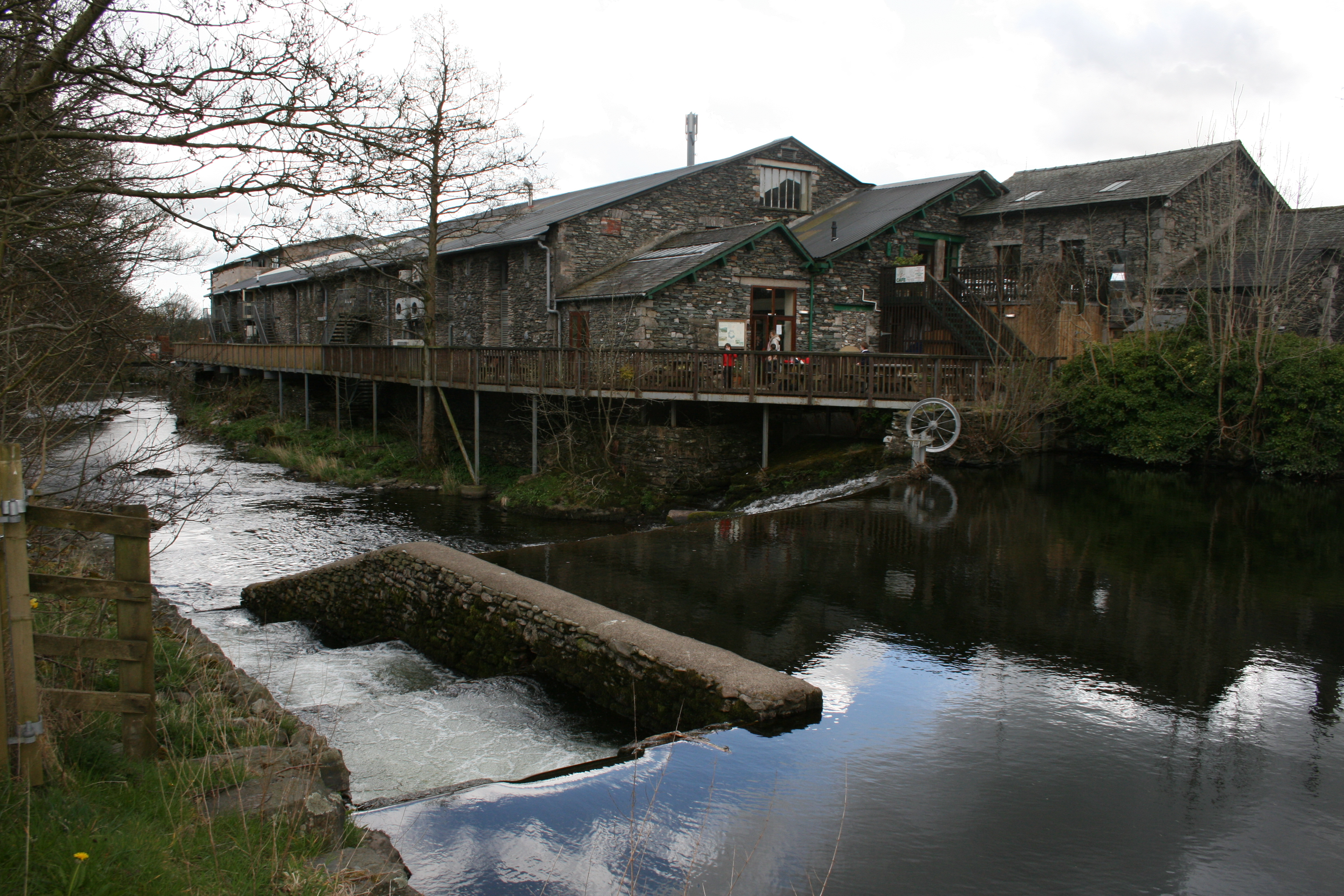 The back of Staveley Mill Yard, looking across the river Kent.